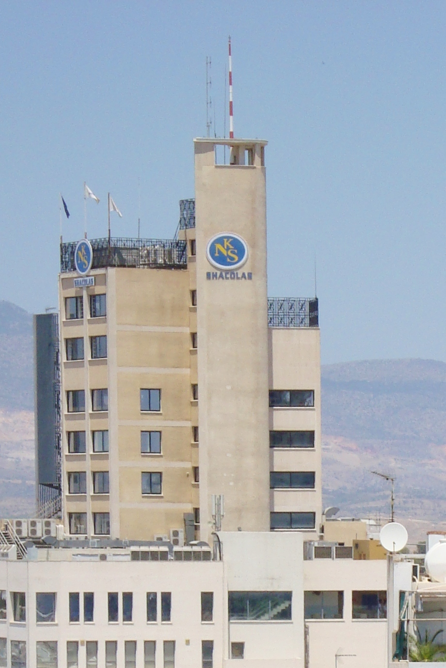 Nicosia Shakolas Tower skyline during daylight Republic of Cyprus